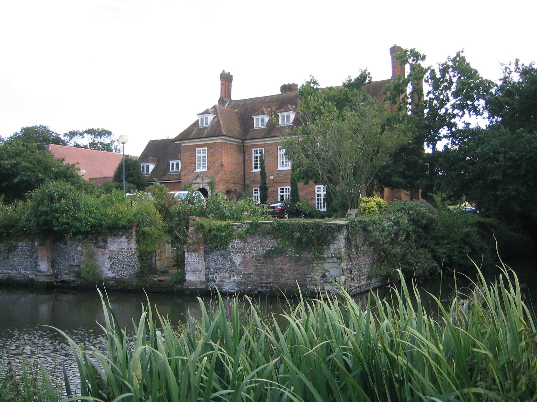 Deben Dave 20:13, 4 September 2007 (UTC)